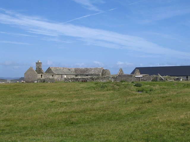 Ruined farm at Glebe on Bressay, Shetland, Scotland